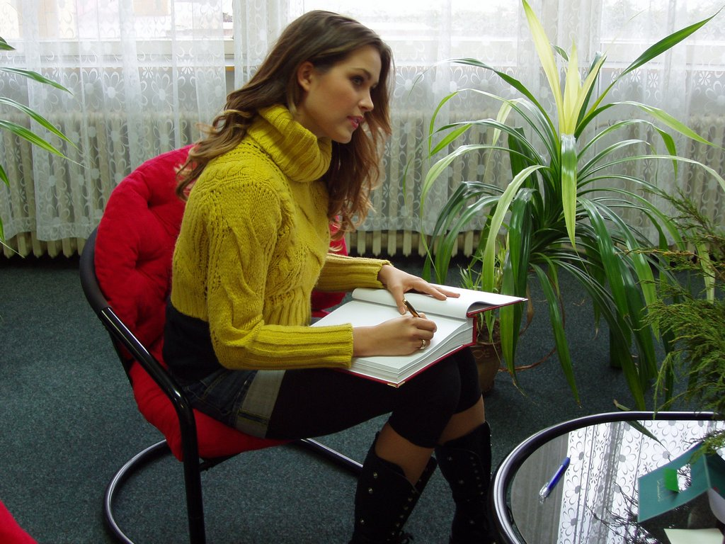 Czech model Petra Němcová.